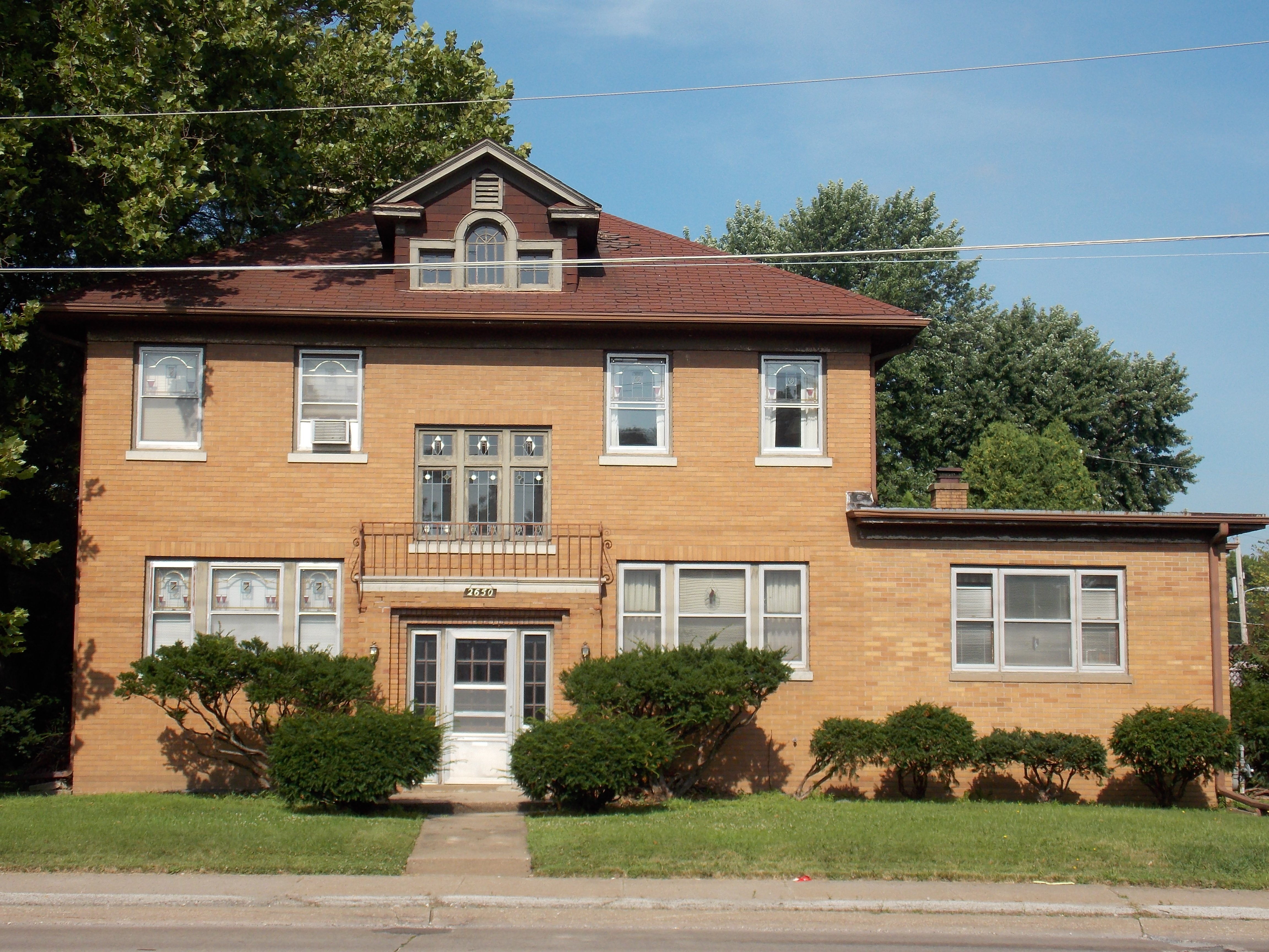 The building at 2650 Harrison Street in Davenport, Iowa is a contributing property in the Columbia Avenue Historic District.